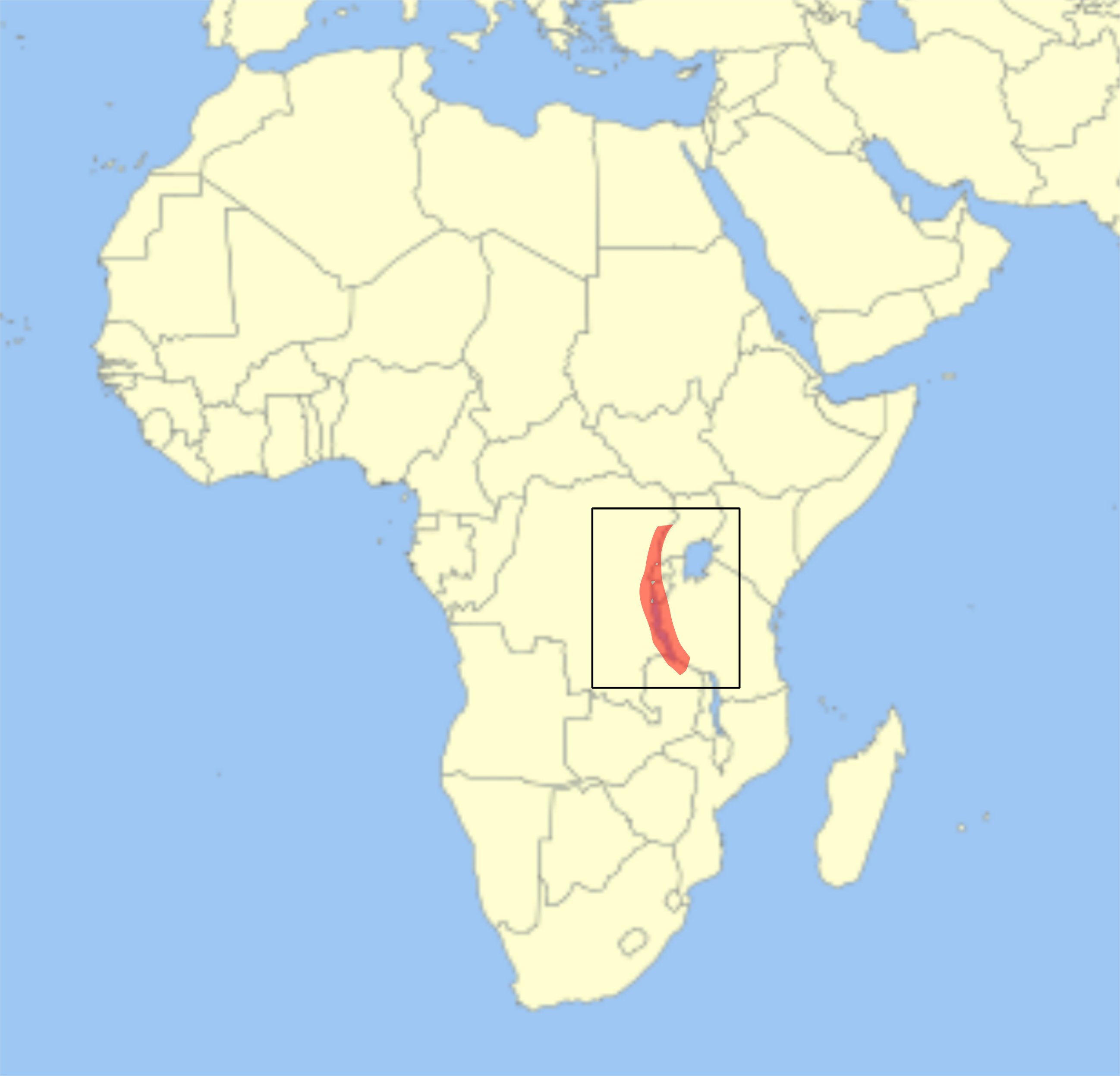 A distribution map for the rodent species C. kivuensis. Original SVG map by author Canuckguy and others. Made with Inkscape